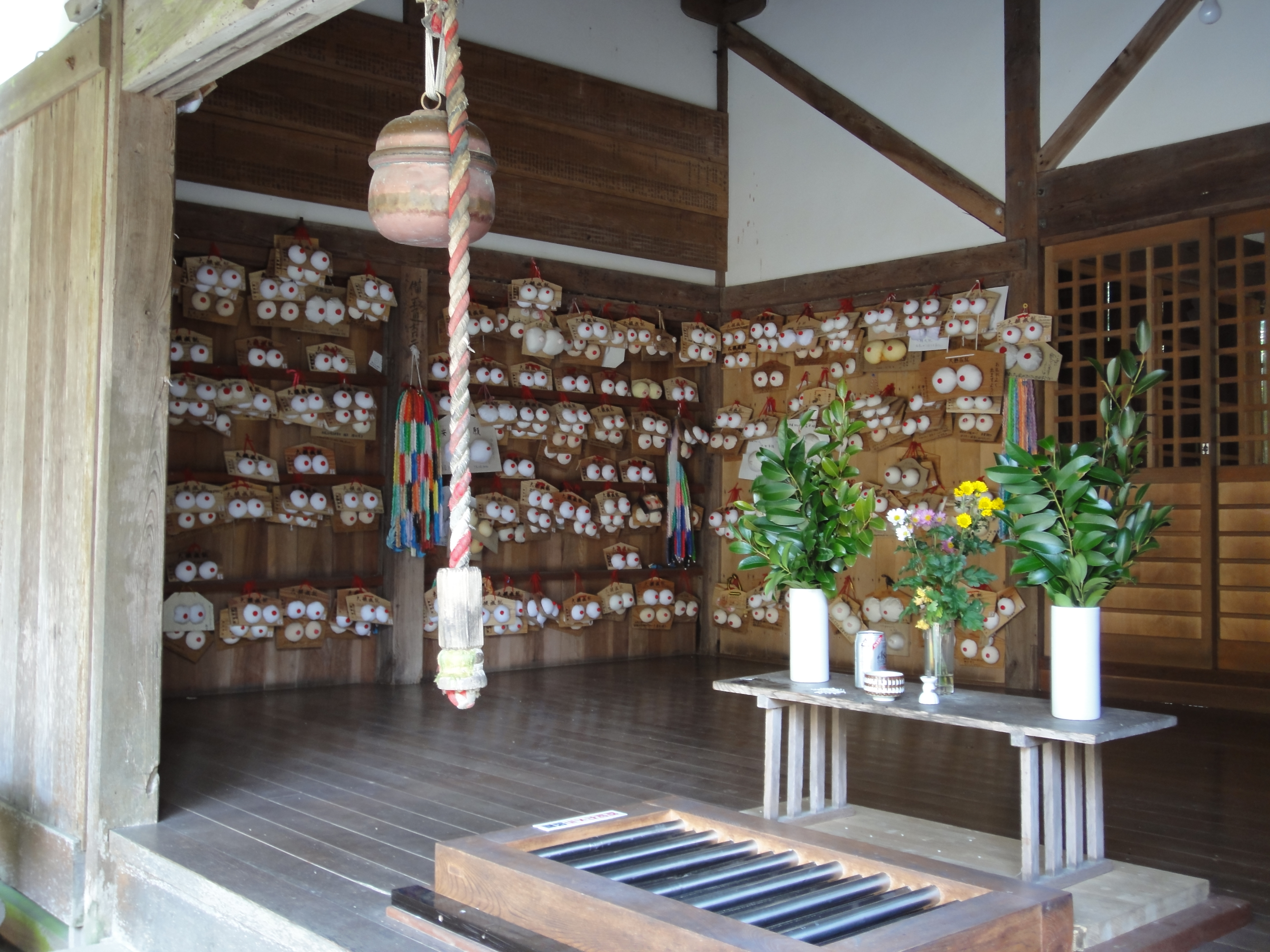 Ema in the shape of the breasts, Karube Jinja, Soja, Okayama pref., Japan.